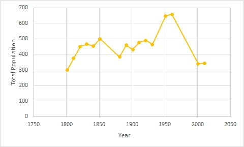 Total population of Friston, Suffolk, as reported by the Census of Population from 1801 to 2011.